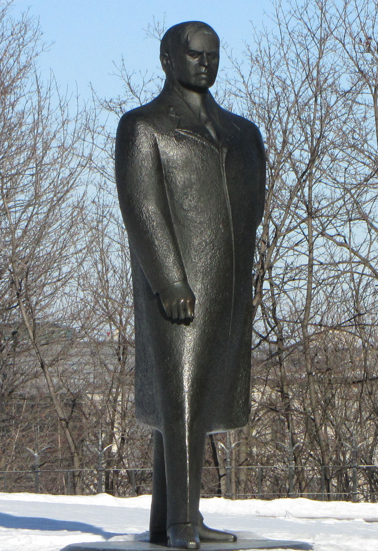 William Lyon Mackenzie King (1874-1950) statue, Parliament Hill, Ottawa, Ontario, Canada